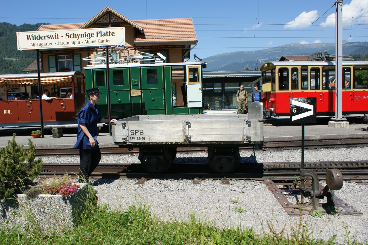 The shunter in this picture is a young lady who normally acts as ticket controller and brake woman on the trains